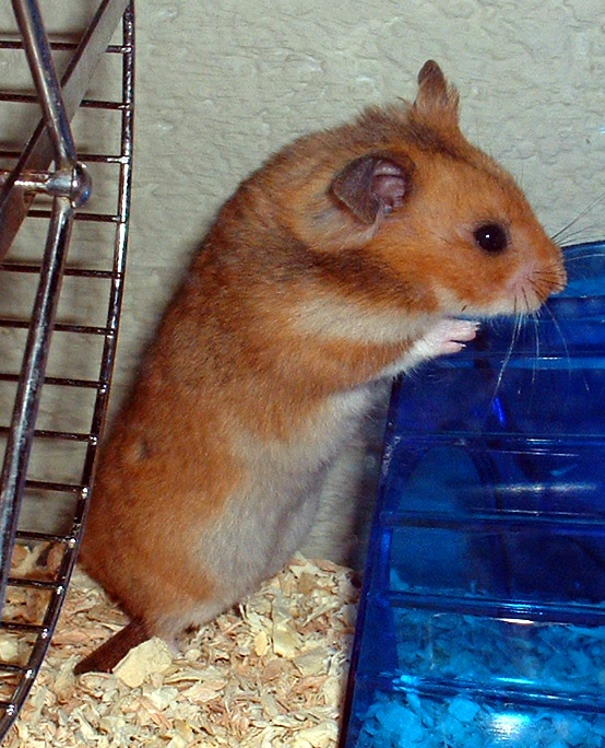 This is a recoloured version of the file already available at which was presumably, from the coloration therein, taken in dark conditions. The colours in this file seem more accurate.